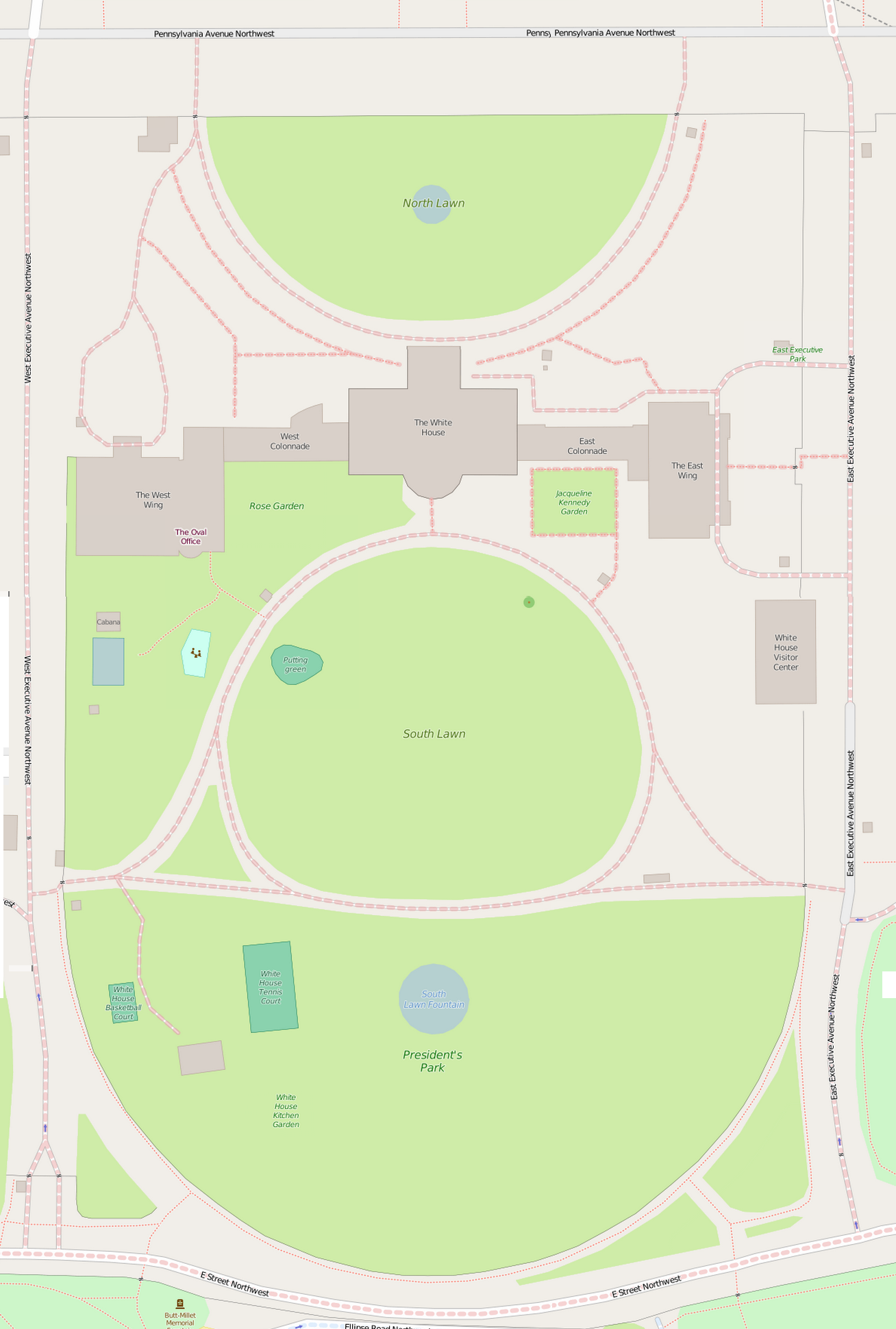 Map of the White House and grounds